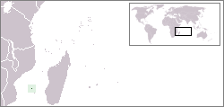 Location of Bassas da India Atoll in the Indian Ocean